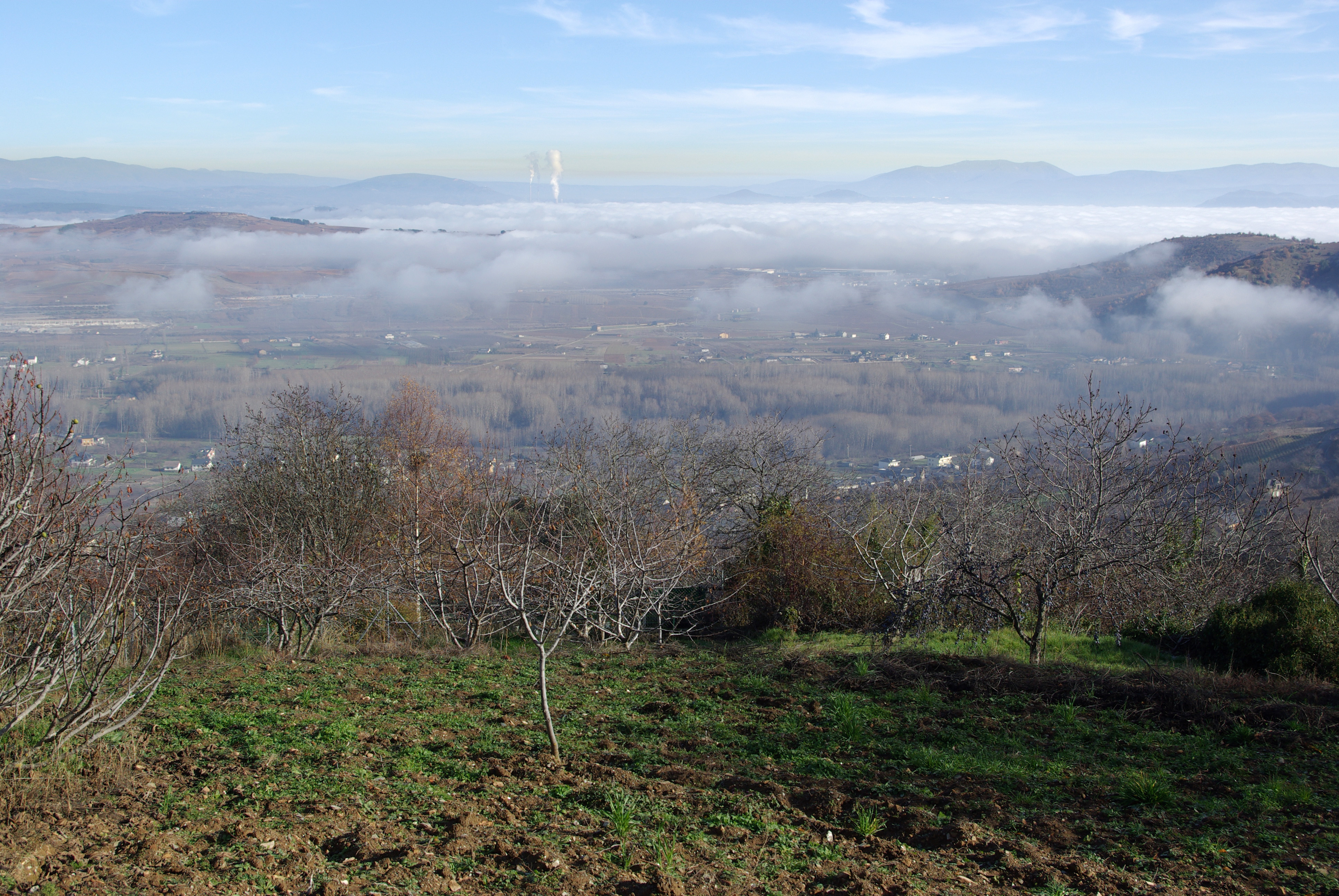 Depression of El Bierzo view from Corullón (León, Spain). Thermal power station Compostilla II gas emissions are seen near Ponferrada under winter fog.